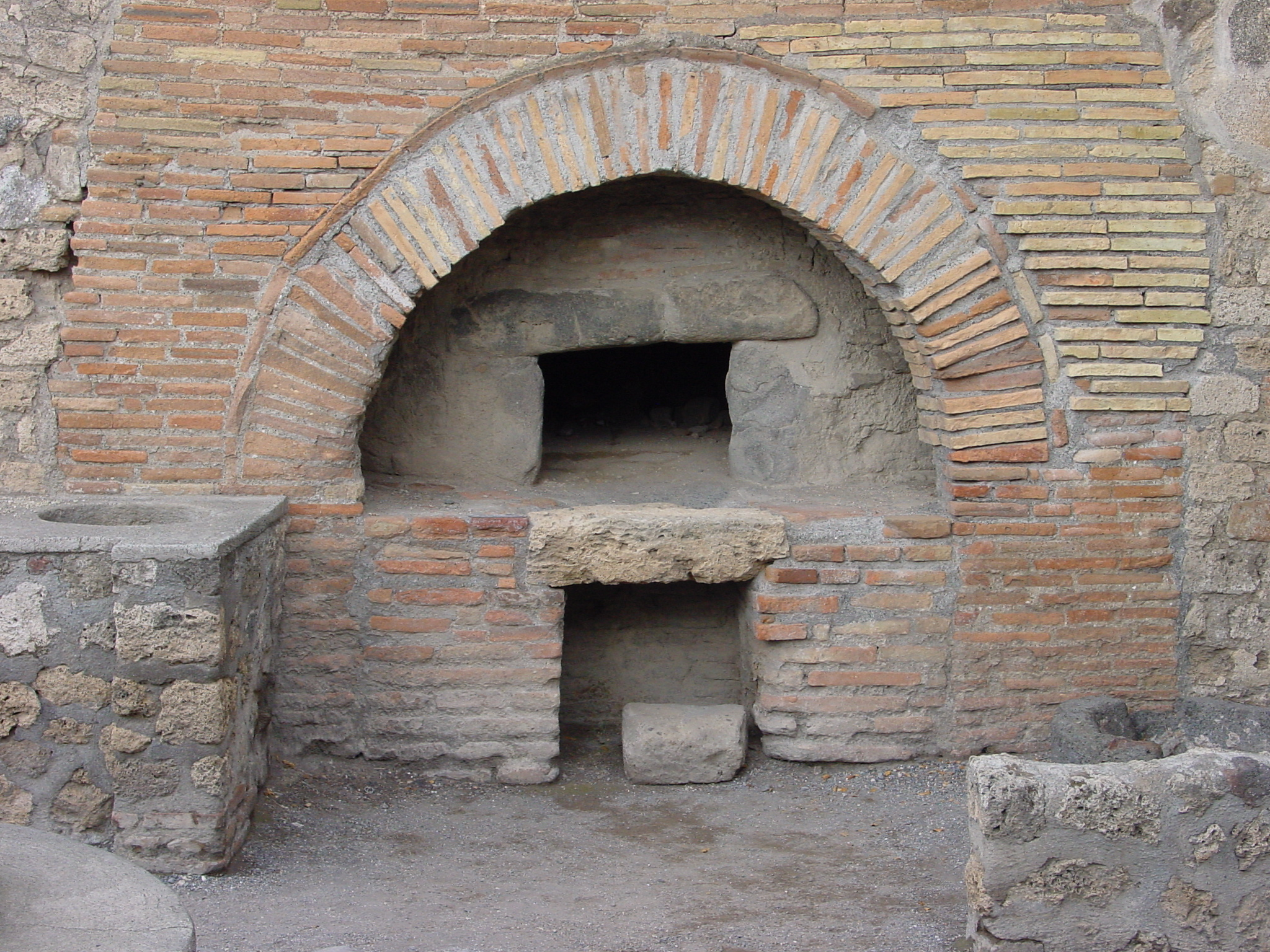 abaker's oven in Pompei